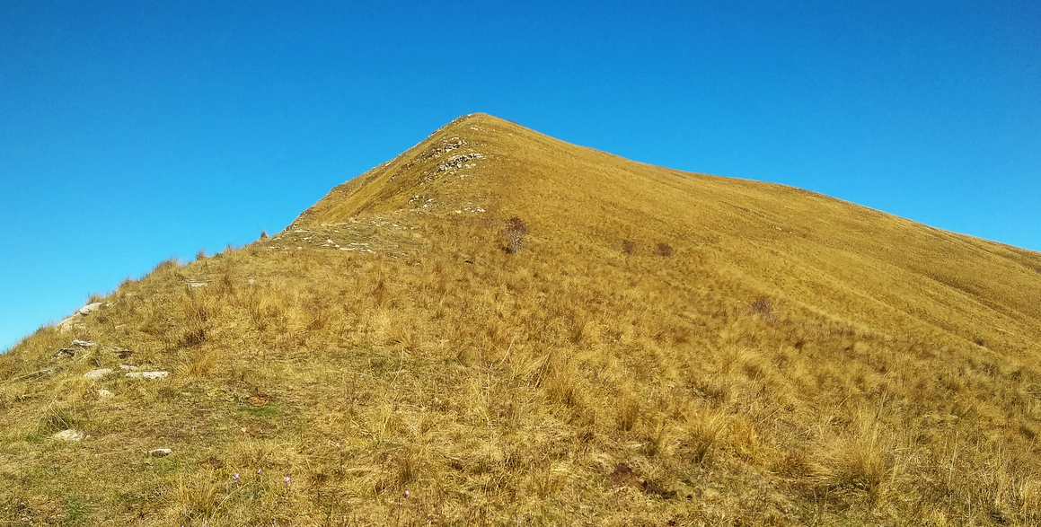 Monte Monega (Ligurian Alps, Italy) as seen fron South